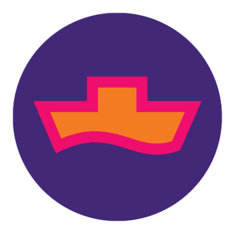 Official logo of Women on Waves, a Dutch pro-choice nongovernmental organization (NGO) created in 1999 by Dutch physician Rebecca Gomperts.